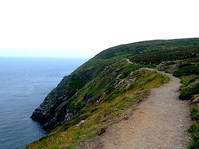 Cliff top walk in Howth A beautiful walk along Howth Head